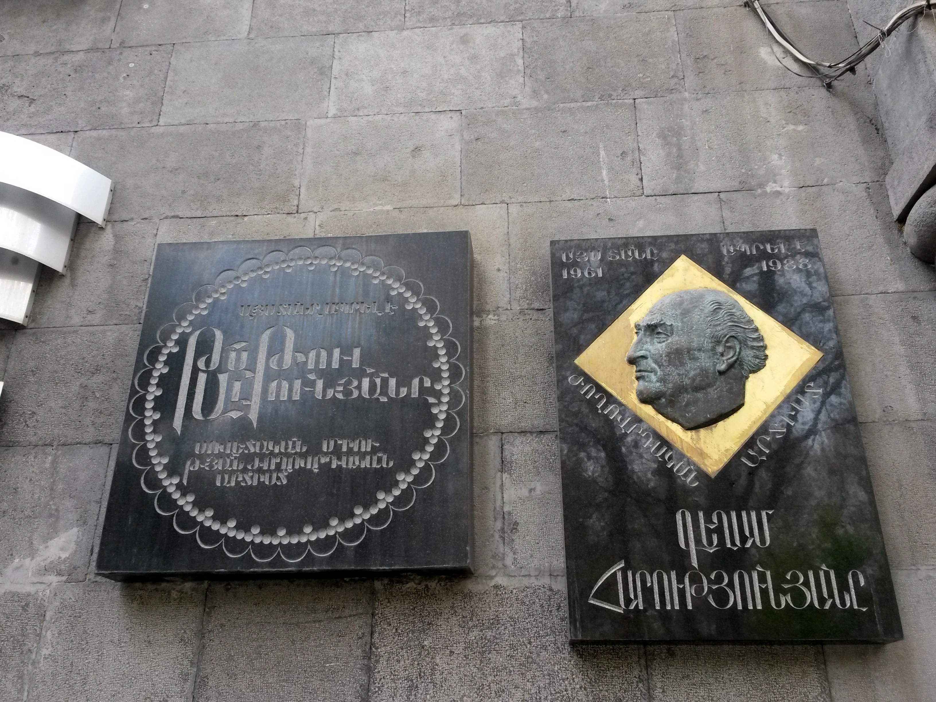 Plaques on Zoryan street dedicated to Tatoul Altounyan and Gegham Haroutyunyan